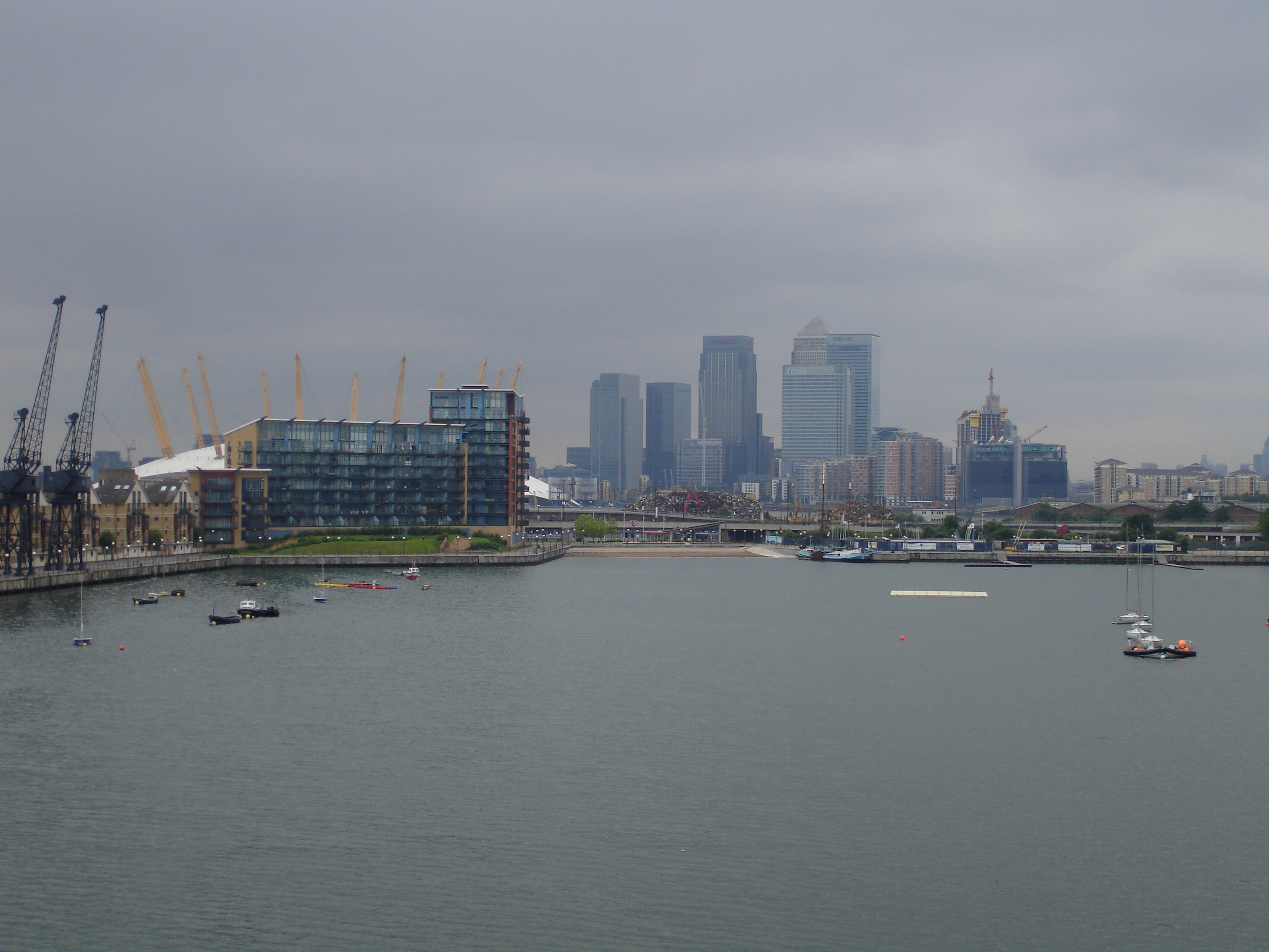 Suzanne Knights, my photo